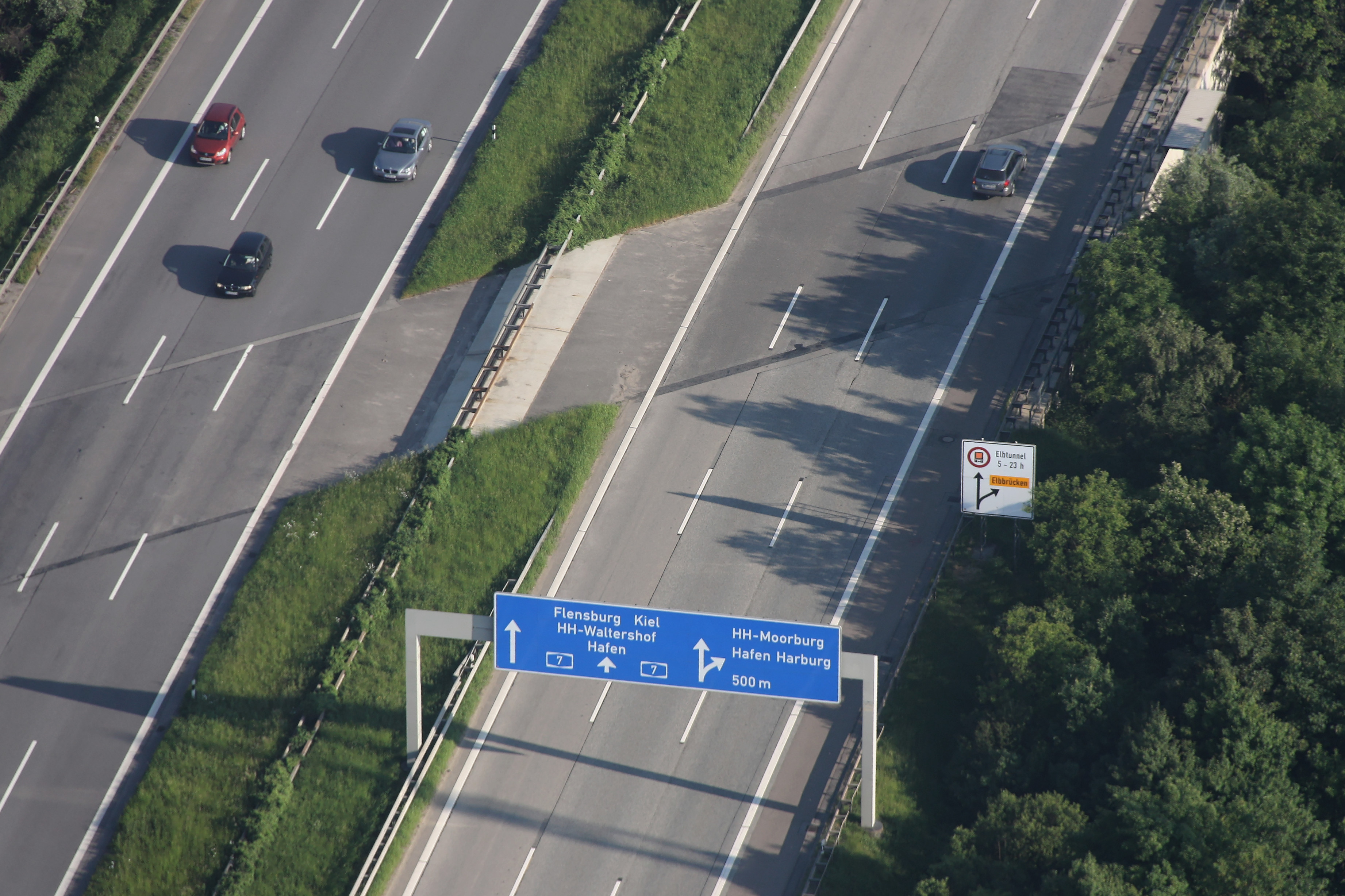 Part of the german motorway "A7" near Hamburg-Heimfeld with railwaybridge